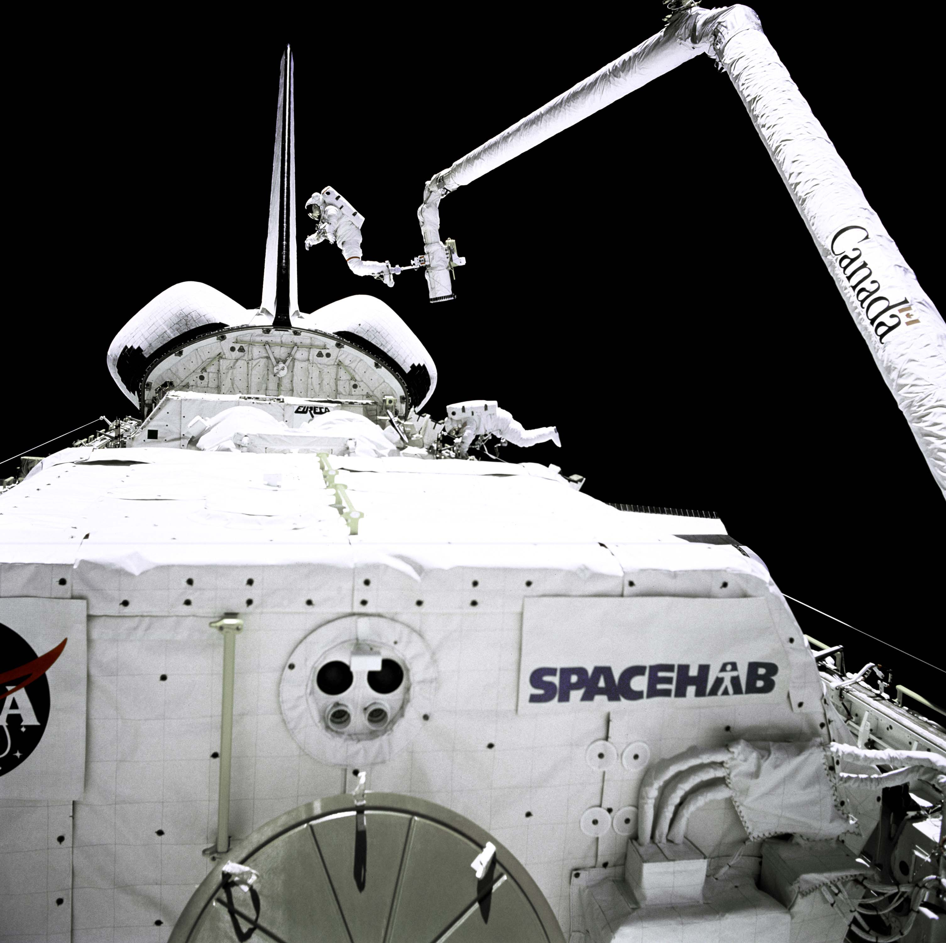 Mission Specialist (MS) Peter J.K. Wisoff (bottom), wearing an Extravehicular Mobility Unit (EMU), works with the antenna on the European Retrievable Carrier (EURECA) while Payload Commander (PLC) G. David Low, on the Remote Manipulator System (RMS) robot arm, hovers above. The two astronauts were conducting Detailed Test Objective (DTO) procedures in the payload bay of Endeavour. Low, also suited in an EMU, is anchored to the RMS via a Portable Foot Festraint (PFR) Manipulator Foot Restraint (MFR). DTO results will assist in refining several procedures being developed to service the Hubble Space Telescope (HST) on mission STS-61 in December 1993. Visible in Endeavour's payload bay (PLB) are the open Spacelab (SL) tunnel adapter hatch (foreground), SPACEHAB-01 (Commercial Middeck Augmentation Module (CMAM) (foreground), and the top of the Superfluid Helium On Orbit Transfer (SHOOT) payload. The astronauts and Endeavour's vertical stabilizer and Orbital Maneuvering System (OMS) pods are backdropped against the blackness of space.